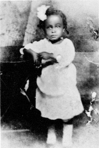 Billie Holiday child, toward 1917 (unknown photographer)